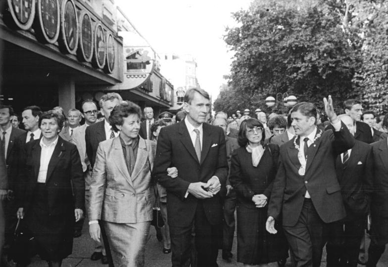 Mauno Koivisto, the president of Finland, (on the middle) in Dresden, German Democratic Republic on 30 September 1987. Mrs Tellervo Koivisto on the left and Wolfgang Berghofer, the lord mayor of Dresden, on the right.